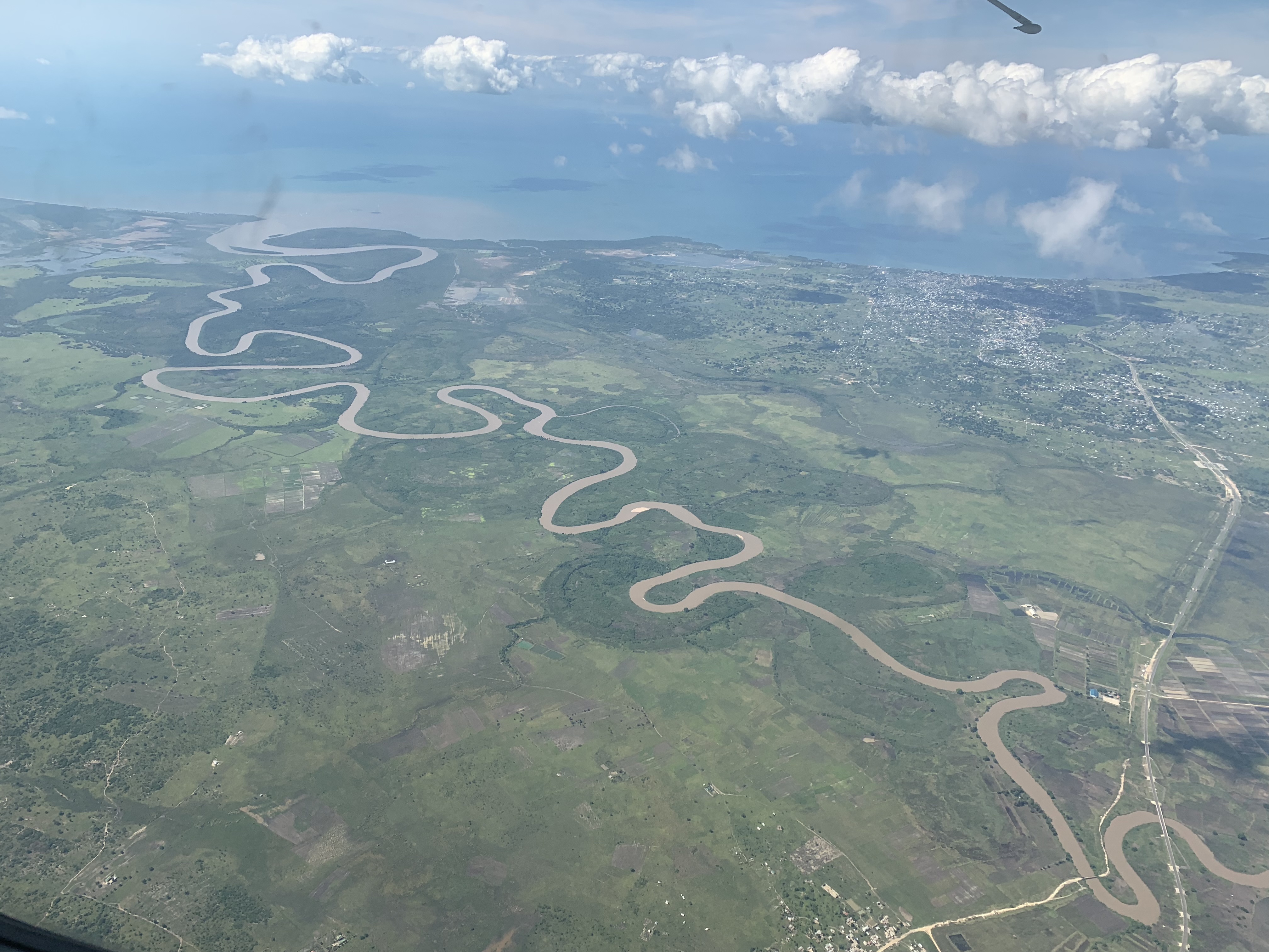 Aerial view of Ruvu Basin